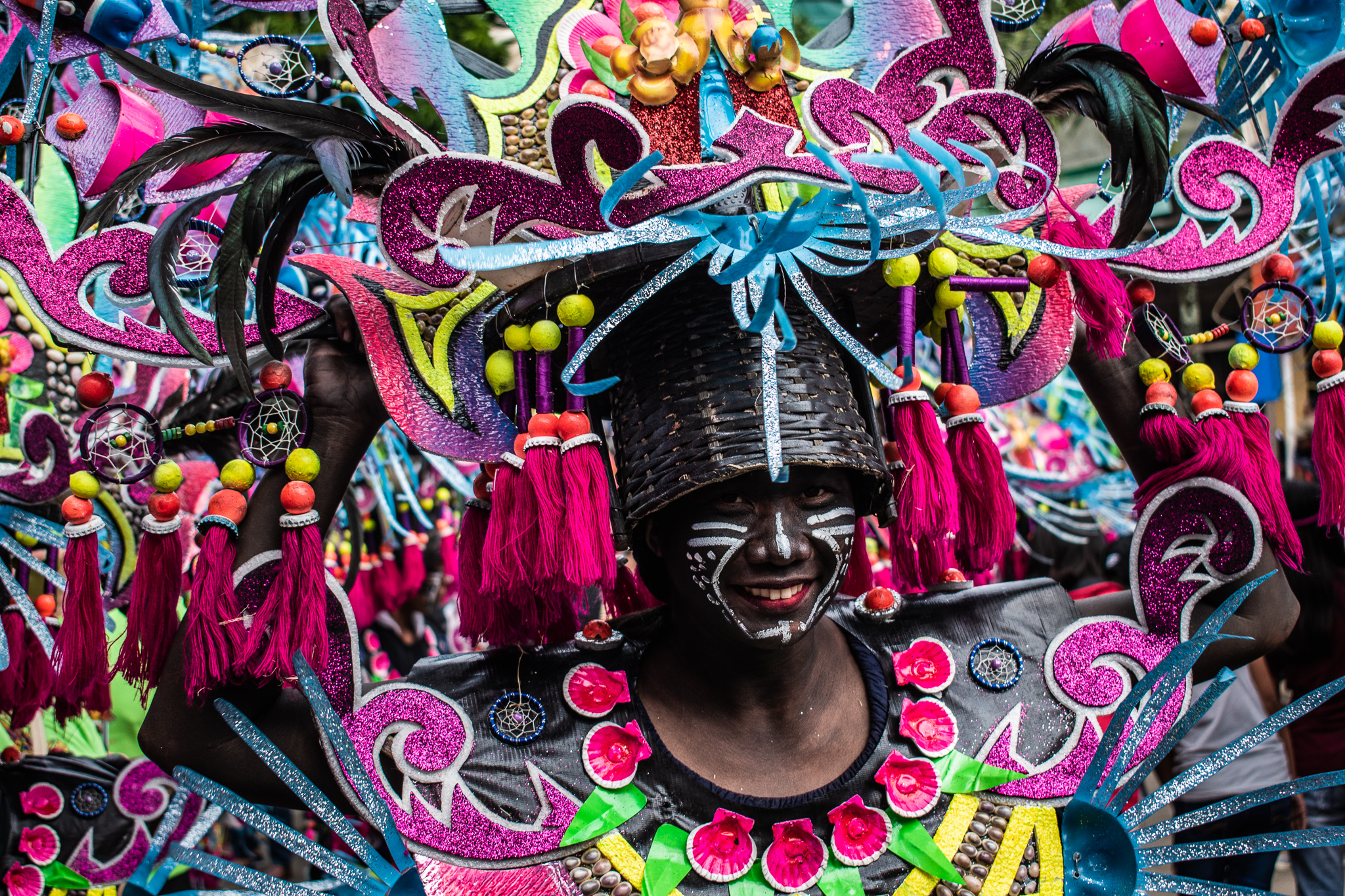 The Kalibo Ati-Atihan festival is an annual religious festival that involves colorful costumes, dancing, parades, and more. It is one of the Philippines' largest festivals and lasts for an entire week in January, although the build up is often much longer. This photo has been taken in the country: Philippines